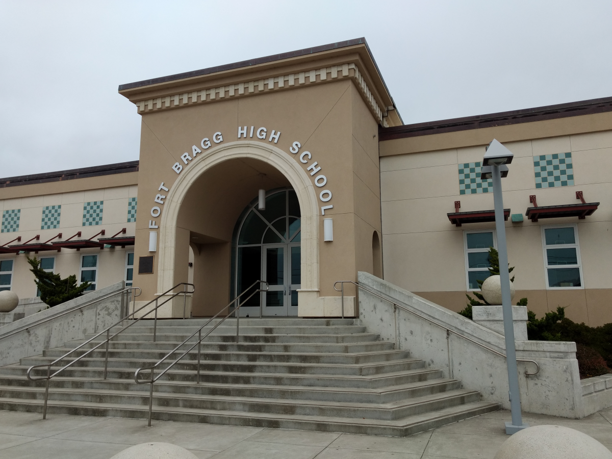 Picture of Fort Bragg High School from sidewalk on Dana Street